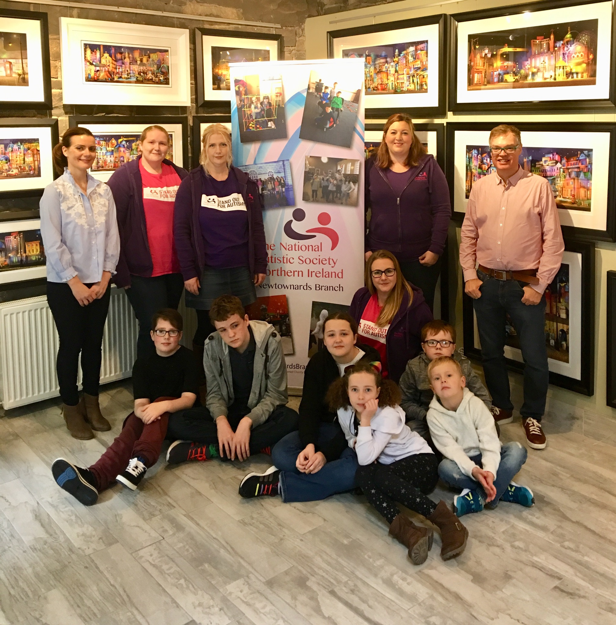 Keith Drury with children from the National Autistic Society.